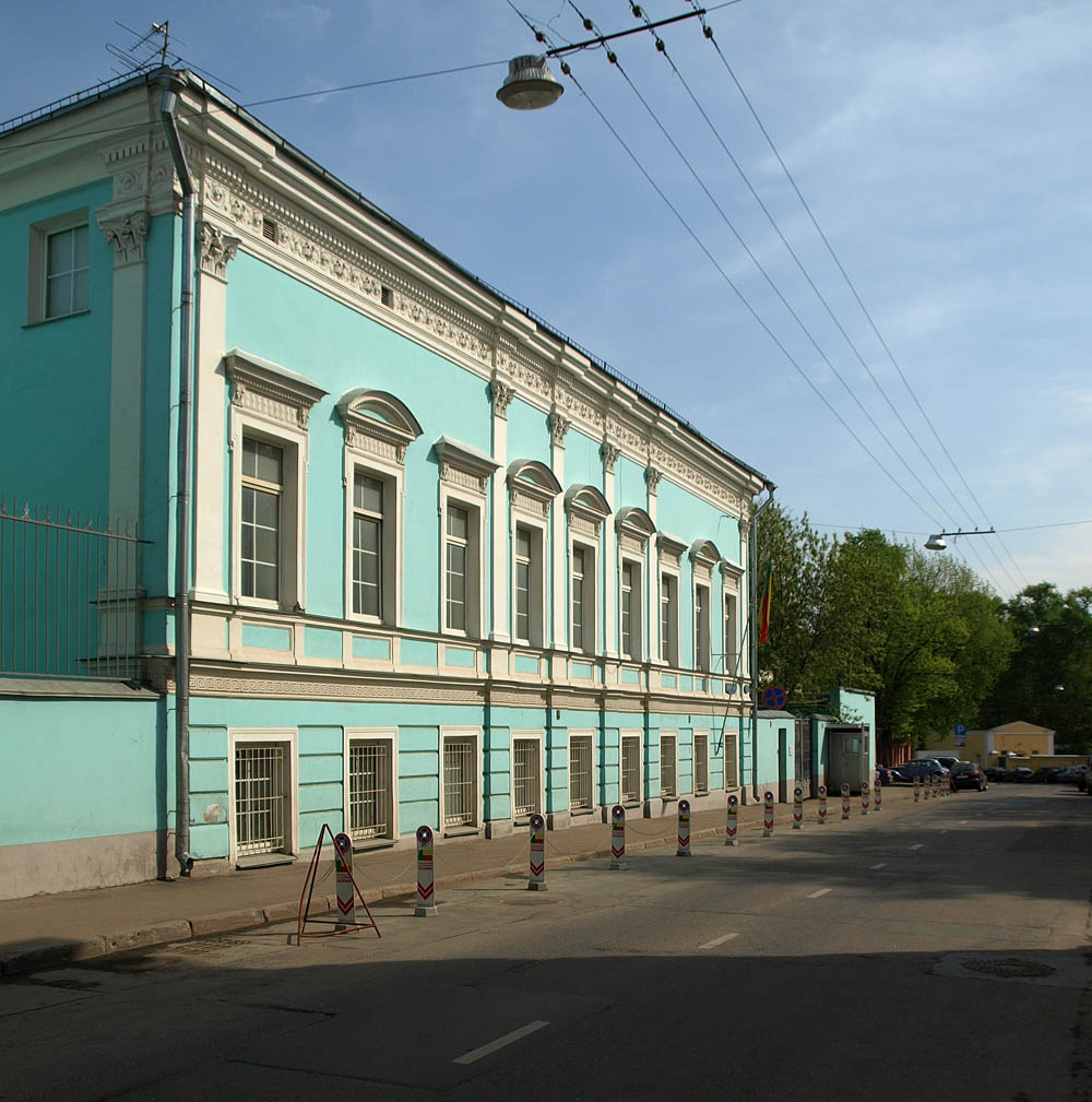 Uspensky Lane, Moscow. Embassy of Benin.